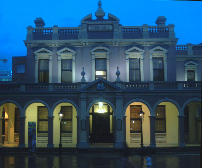 Parramatta (NSW, Australia). The historic Town Hall, dating back to 1880.